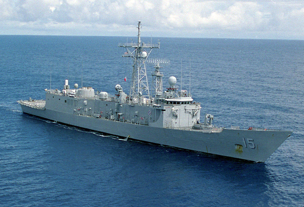 981029-N-0879R-001 The guided missile frigate USS Estocin (FFG-15) conducts counter-narcotics training missions in the Caribbean Sea. (RELEASED)